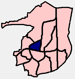 PNG diagram of the Crawley Borough area (in West Sussex, England), showing the 13 residential neighbourhoods and highlighting West Green in dark blue. (Each neighbourhood was allocated a colour when it was built, which together with its name is used on street name signs. Dark blue is West Green's official colour.)